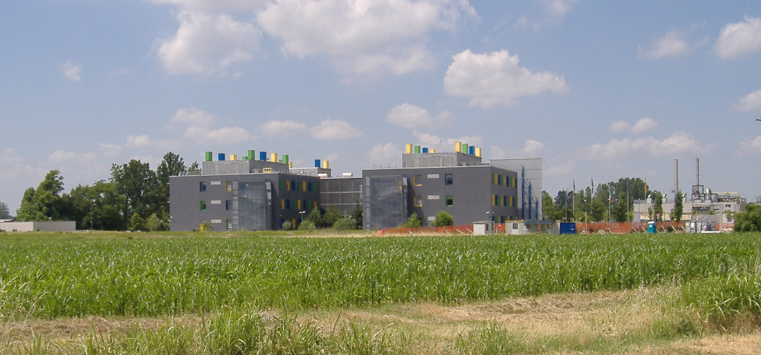 PTP research centre in Lodi, Italy